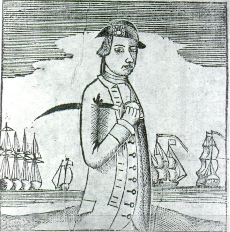 Captain John Manley, wood block, Peabody Essex Museum